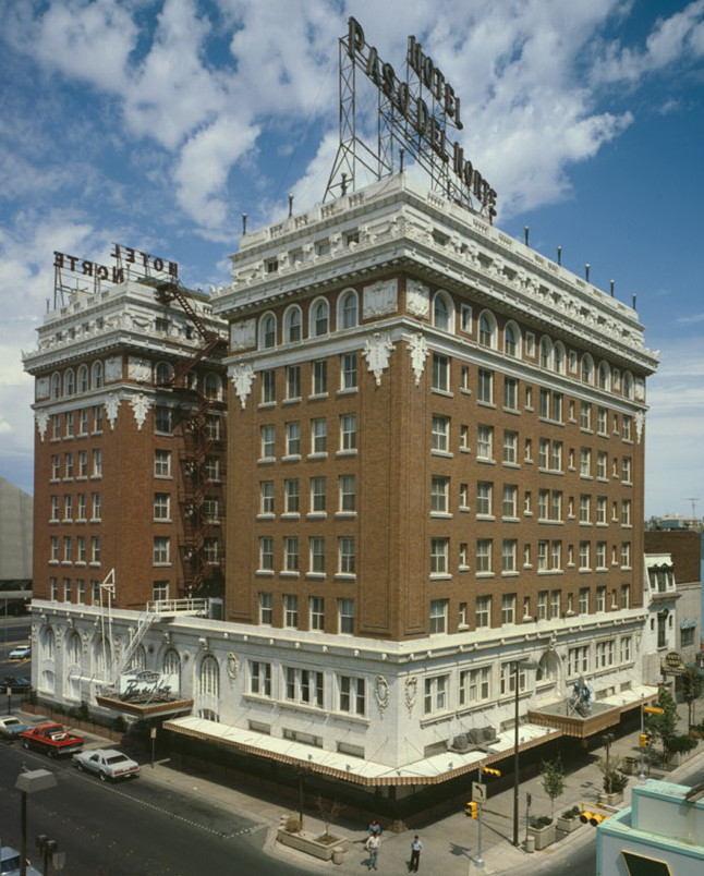 Hotel Paso del Norte — in El Paso, Texas. The 1912 Beaux-Arts style building was designed by Trost & Trost, and is on the National Register of Historic Places. 2012 image: HABS—Historic American Buildings Survey of Texas.